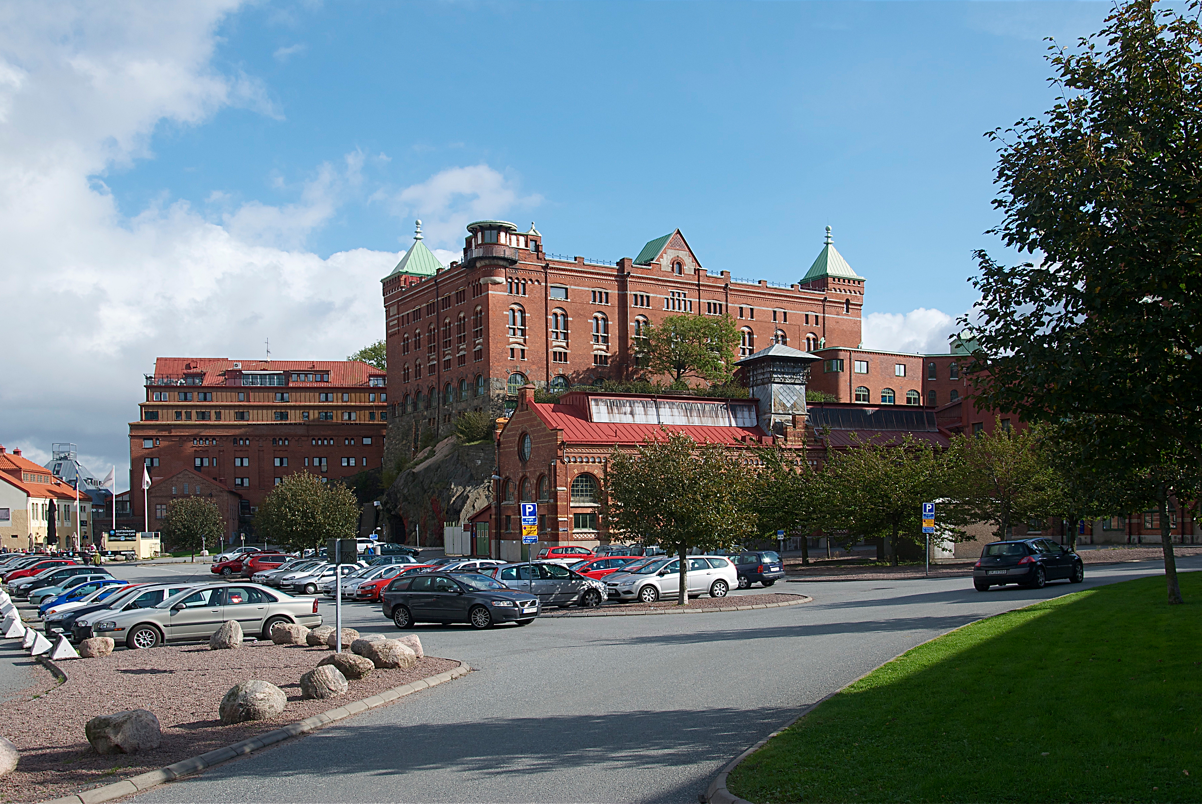 Klippan, september 2011.